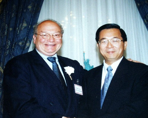 Congressman Gary Ackerman discussing U.S.-Taiwanese relations with Taiwan President Chen Shui-bian.